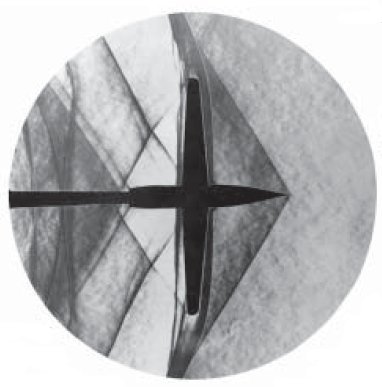 Schlieren photography of an airplane model with straight wings, at Mach 1.2 .